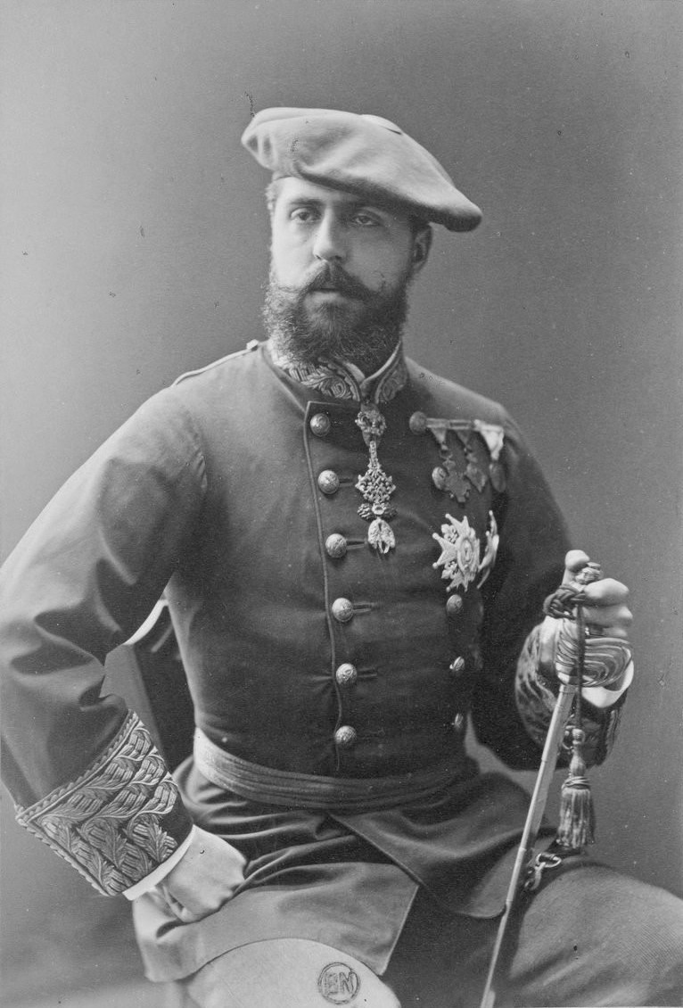 Carlos Duke of Madrid